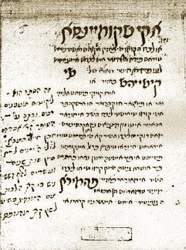 The book on how to make colours, a Jewish-Portuguese manuscript from the 15th century.